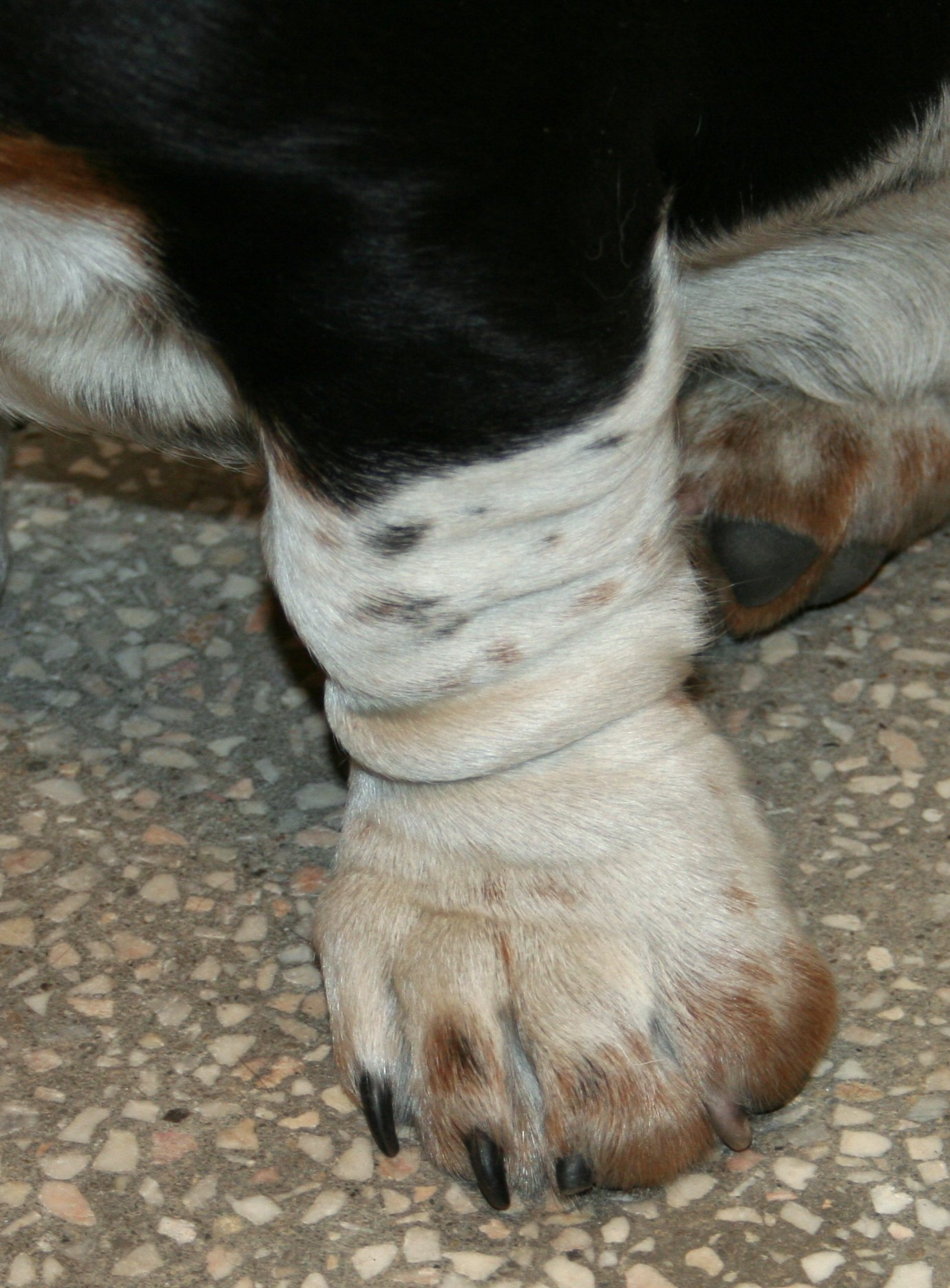 Basset Hound during dogs show in Katowice, Poland